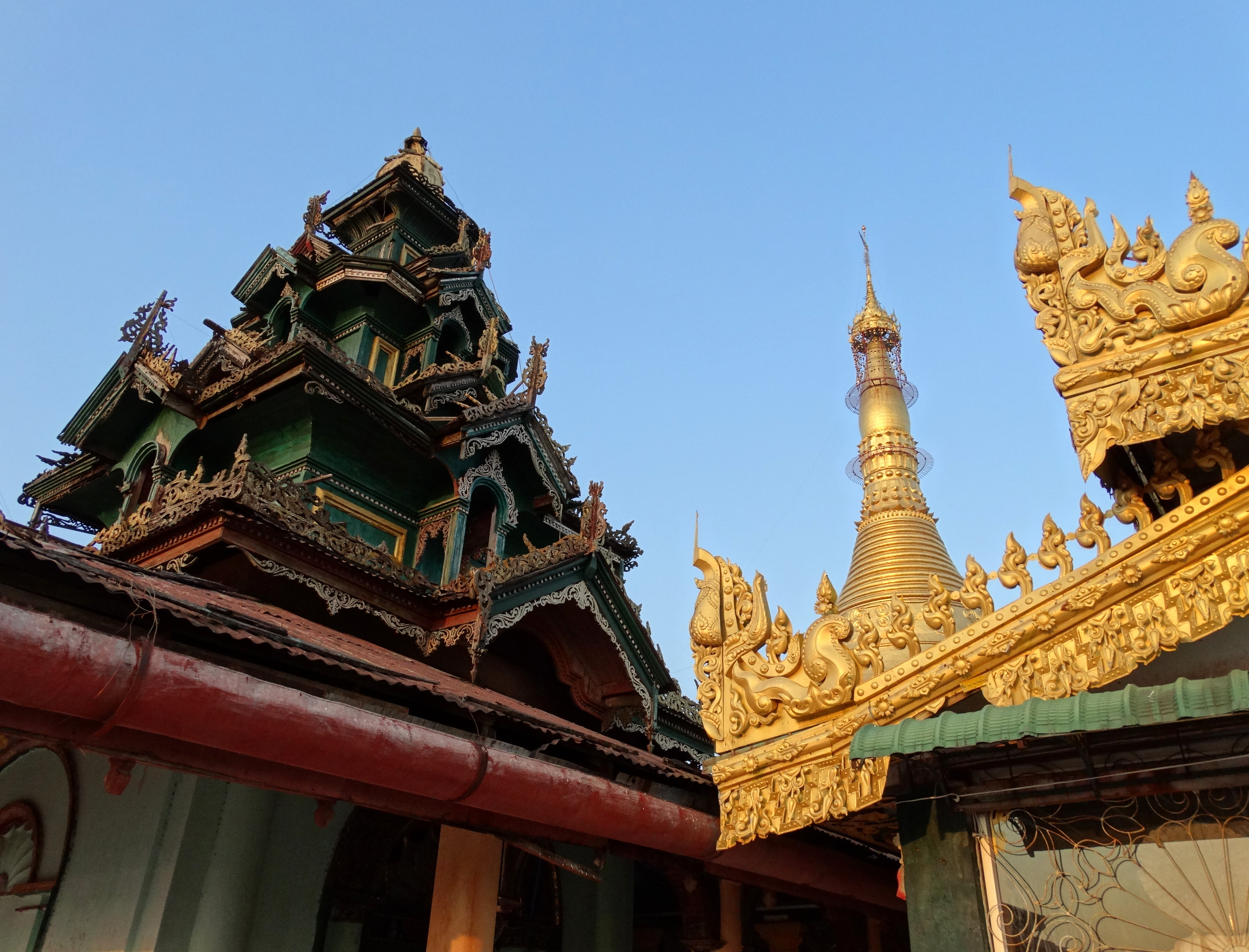 Architecture at Kyaikthanlan Paya - Mwalamyine (Moulmein) - Myanmar (Burma).